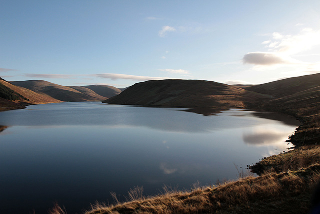 Fruid Reservoir Viewed from the northwest end of the reservoir near the end of a beautiful December afternoon. Fruid Reservoir in the Tweedsmuir Hills was completed in 1969 and contributes 41.8 million litres of water per day to the network water supply for Edinburgh.